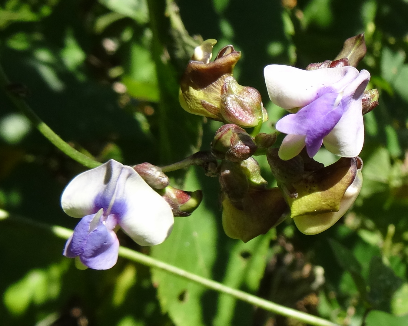 On Serra de Ribaue (Mozambique), about 900 m.a.s.. Looks like the wild progenitor of lablab beans (Dolichos lablab).